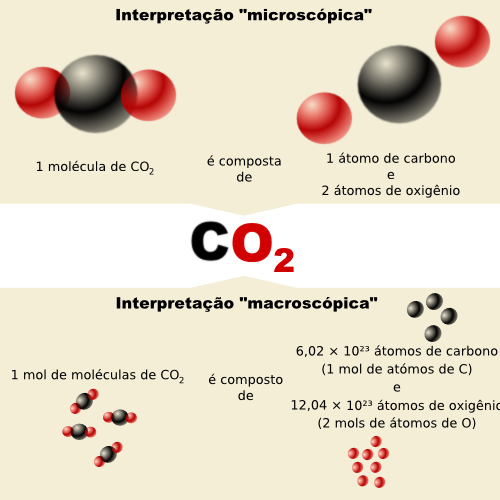 Macroscopial and microscopical interpretation from a molecule of carbon dioxide